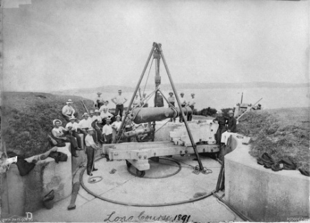 AWM caption : "SYDNEY, NSW. 1891. MEMBERS OF THE LONG COURSE AT THE NSW SCHOOL OF GUNNERY, MIDDLE HEAD, REMOVING AND PLACING ON A GUN CARRIAGE A 68 BATTERY PIECE." Comment : this shows an ML 68-pounder 95 cwt gun.